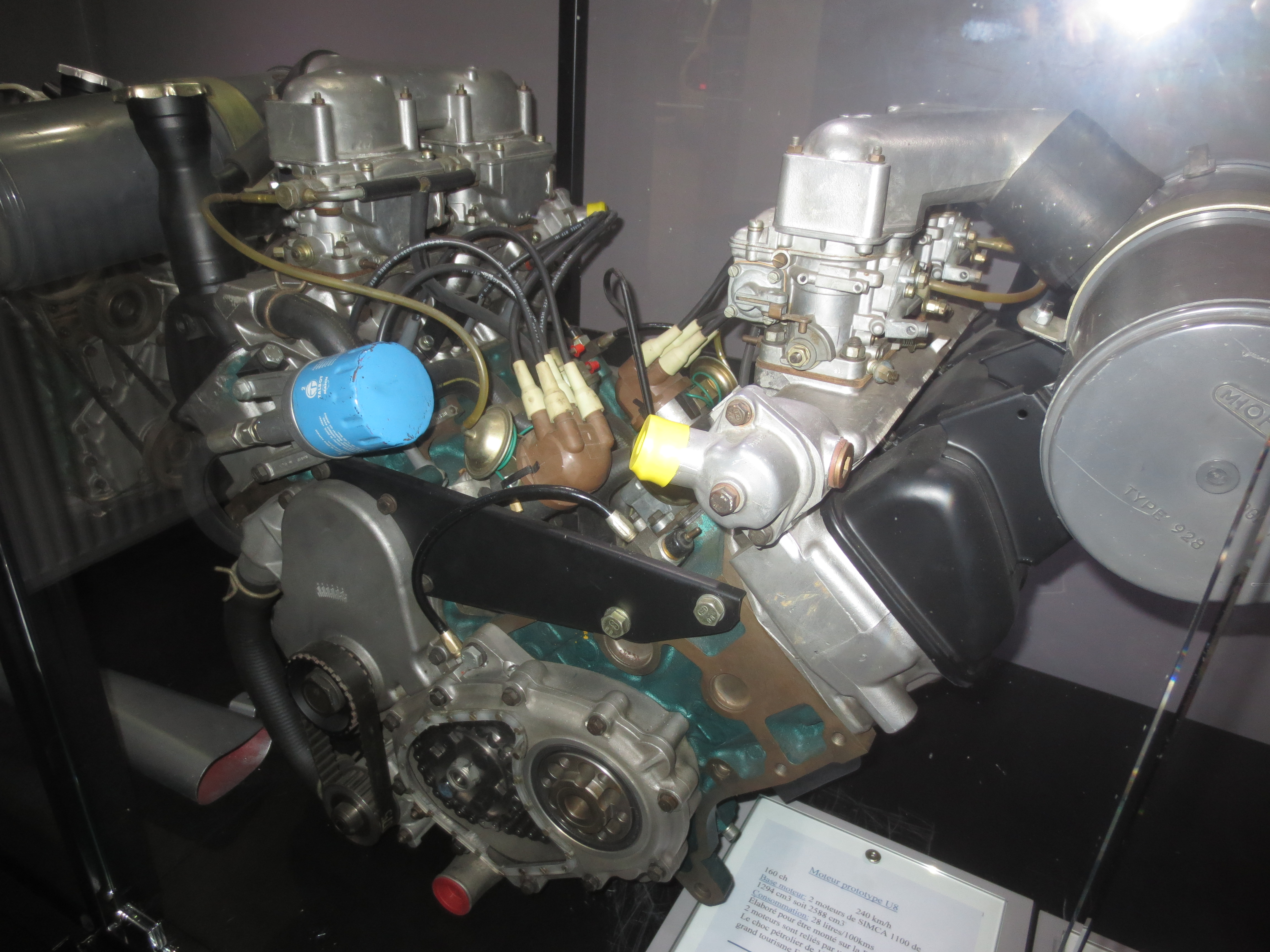 Subject: Matra Bagheera U8 engine: it was composed by two engines of 1.3, not with a crankshaft in common, but with their former crankshafts, pulled by a central shaft and two chains Author: Luc106 Date:May 3rd, 2015 Place/Country: Musée Matra, Romorantin-Lanthenay (France) I release all rights in the public domain. Licensing